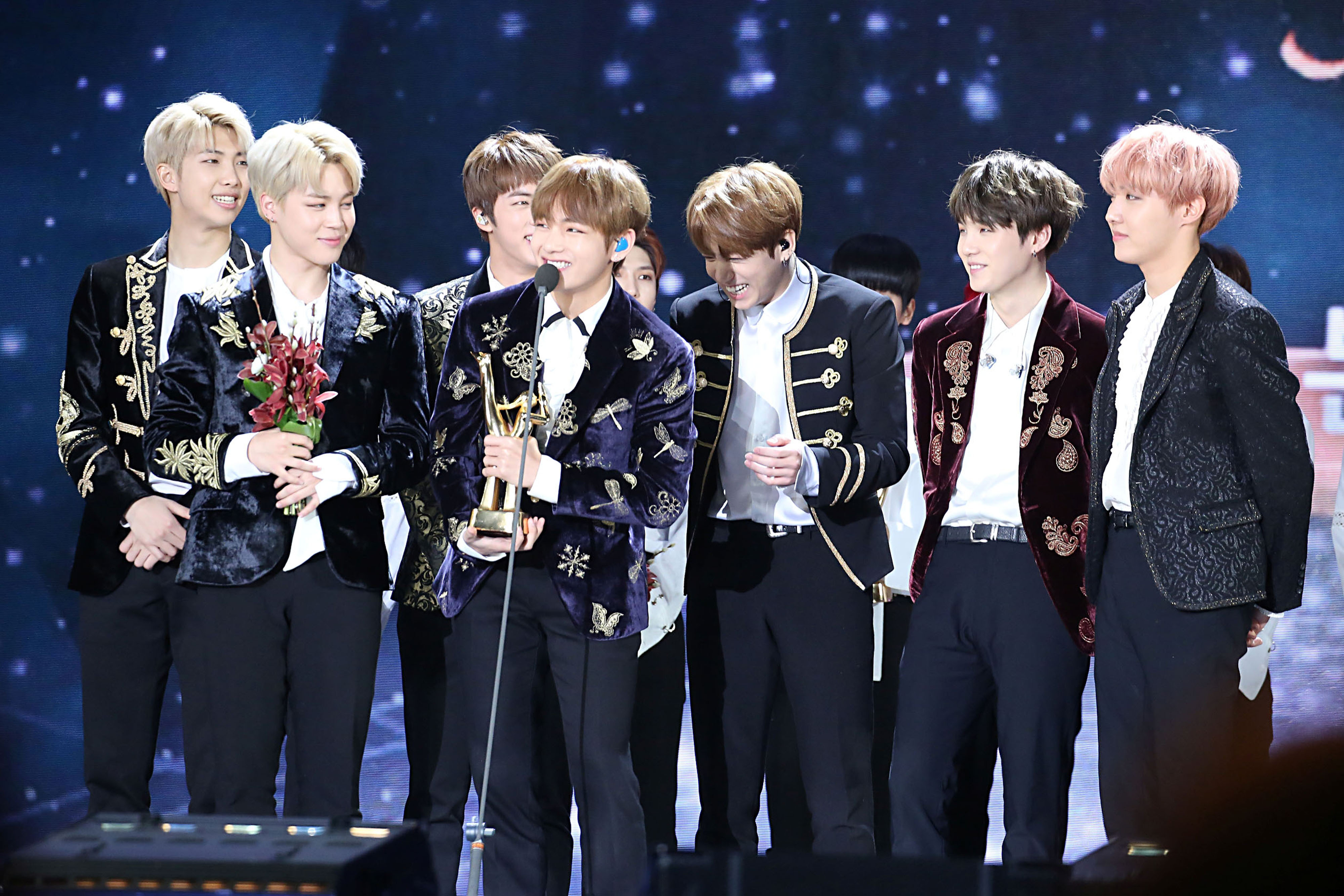 BTS receiving a Bonsang award at the 31st Golden Disk Awards in Seoul on January 14 2017.